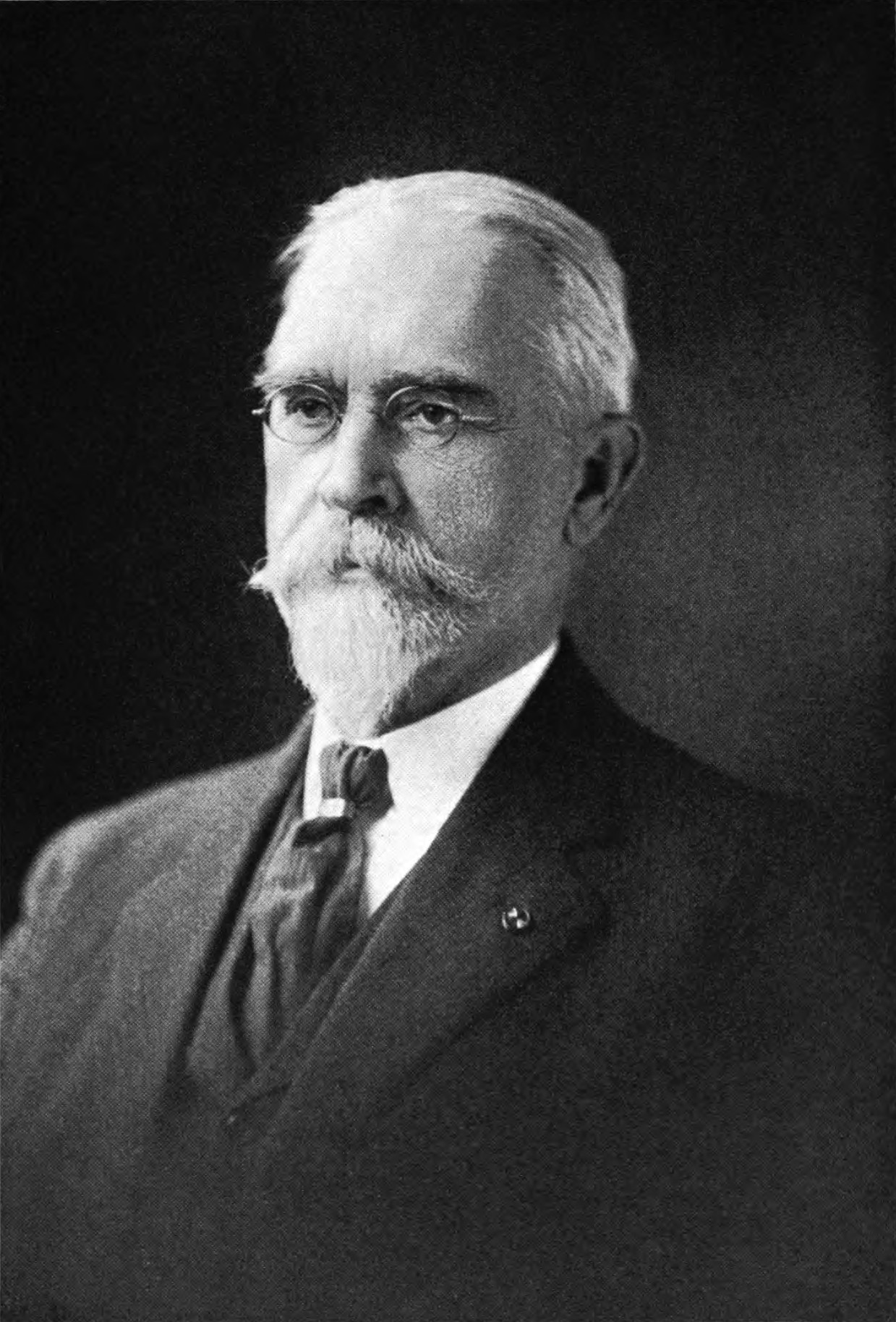 Oliver Christian Bosbyshell, once Superintendent of the Mint at Philadelphia